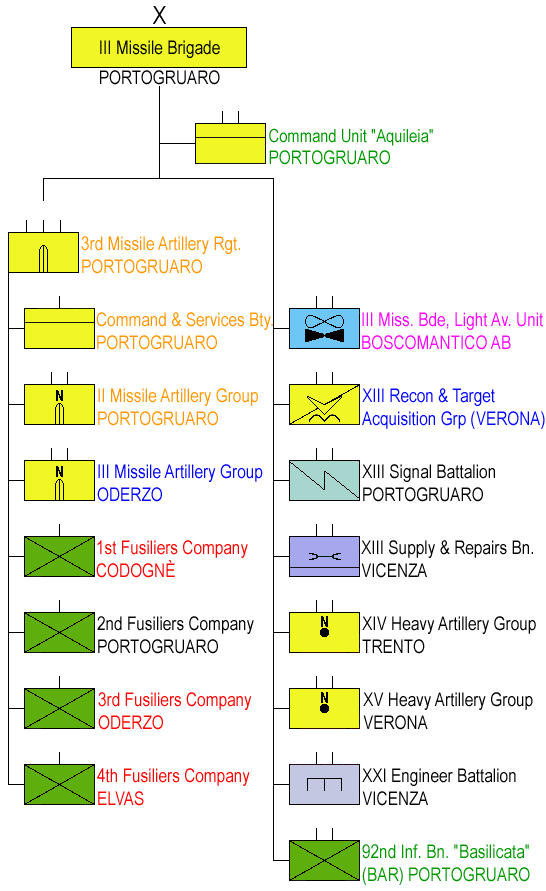 Italian Army III Missile Brigade reform changes 1975